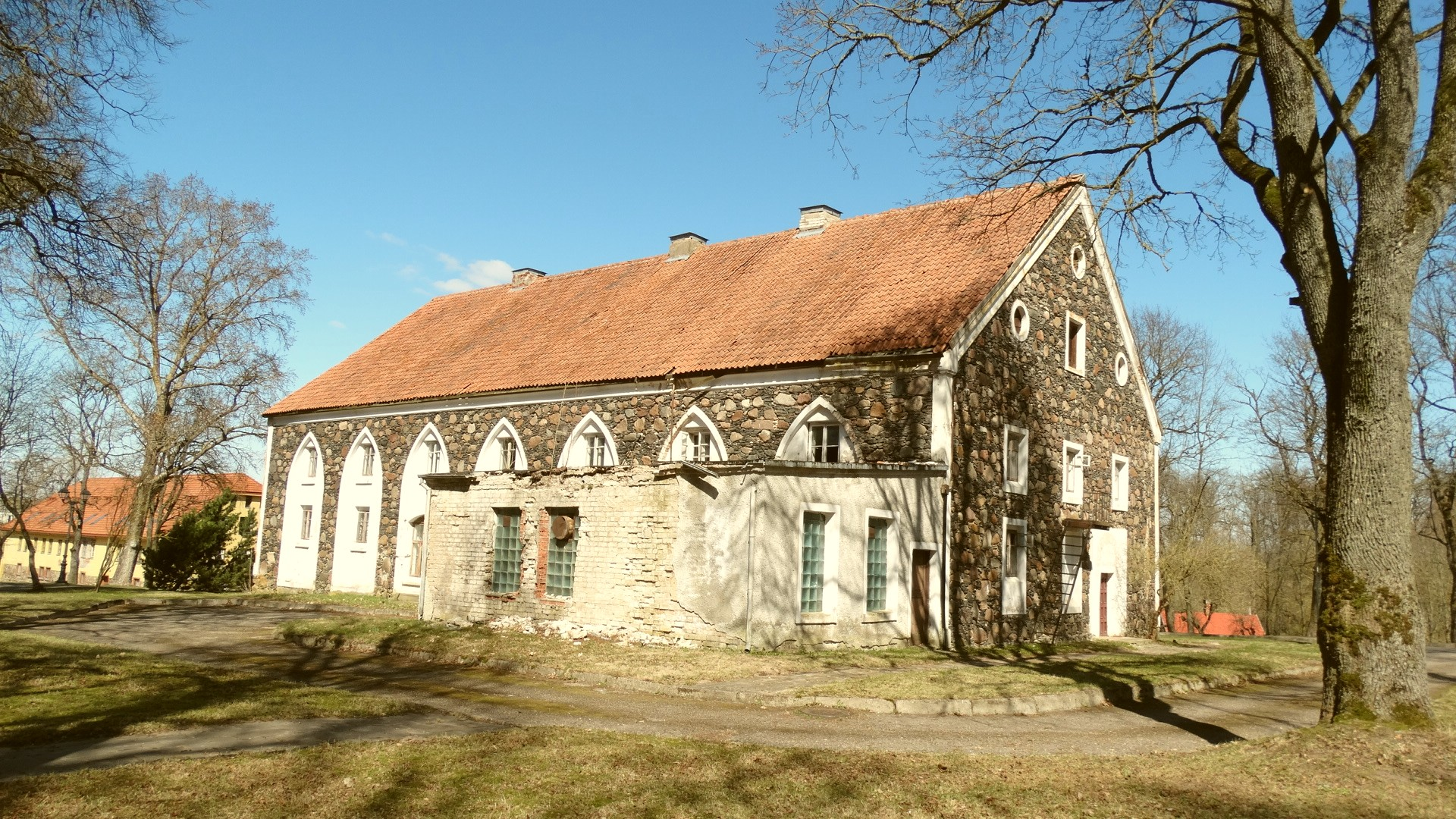 Šeduva manor, Raudondvaris, Radviliškis district, Lithuania